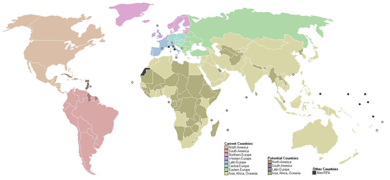 Map of the current Hattrick countries, organized by global region